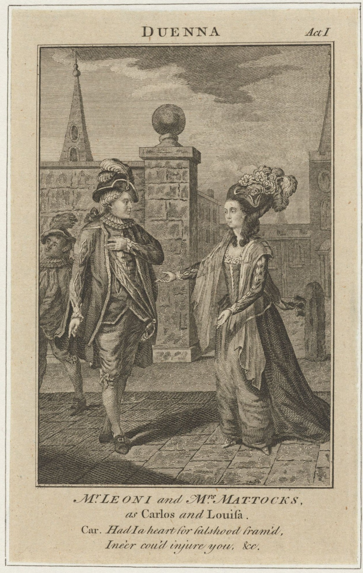 Michael Leoni as Don Carlos amd Mrs. Mattocks as Louisa in The Duenna, circa 1775. TCS 44, Harvard Theatre Collection, Houghton Library, Harvard University